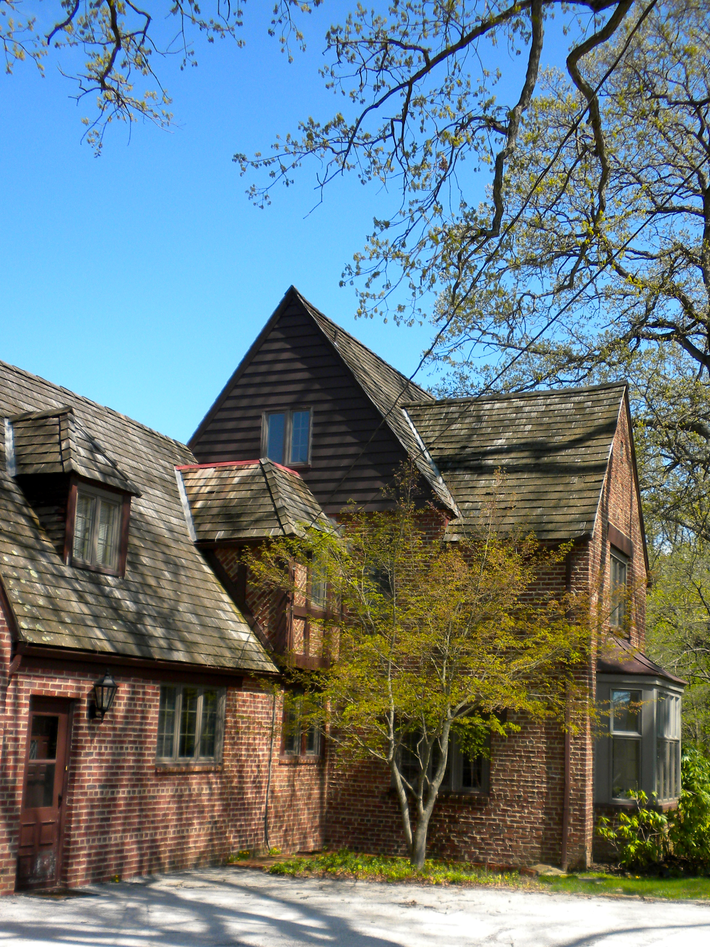 Pickwick (House) on NRHP since July 28, 1988. On the northern side of Swedesford Road, West Whiteland Township, Chester County, PA. Swedesford Road goes back before the revolution, but frankly this house is not as impressive as most other NRHP listings from an architectural point of view. Nevertheless, this is the house at the given coordinates.